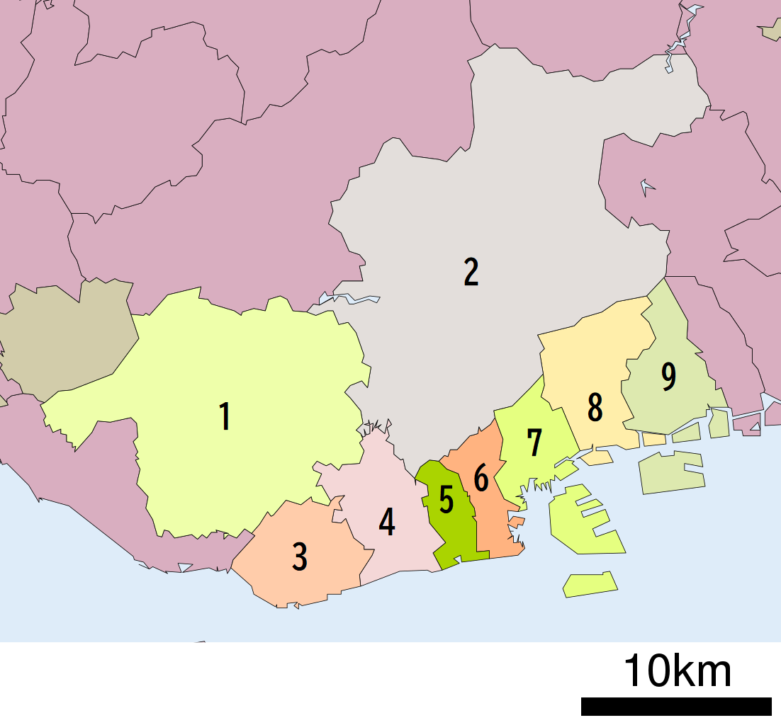 Location of Kobe city ,Hyogo prefecture, Japan Data from Digital National Land Information, MLIT(行政区域(N03)・湖沼(W09))